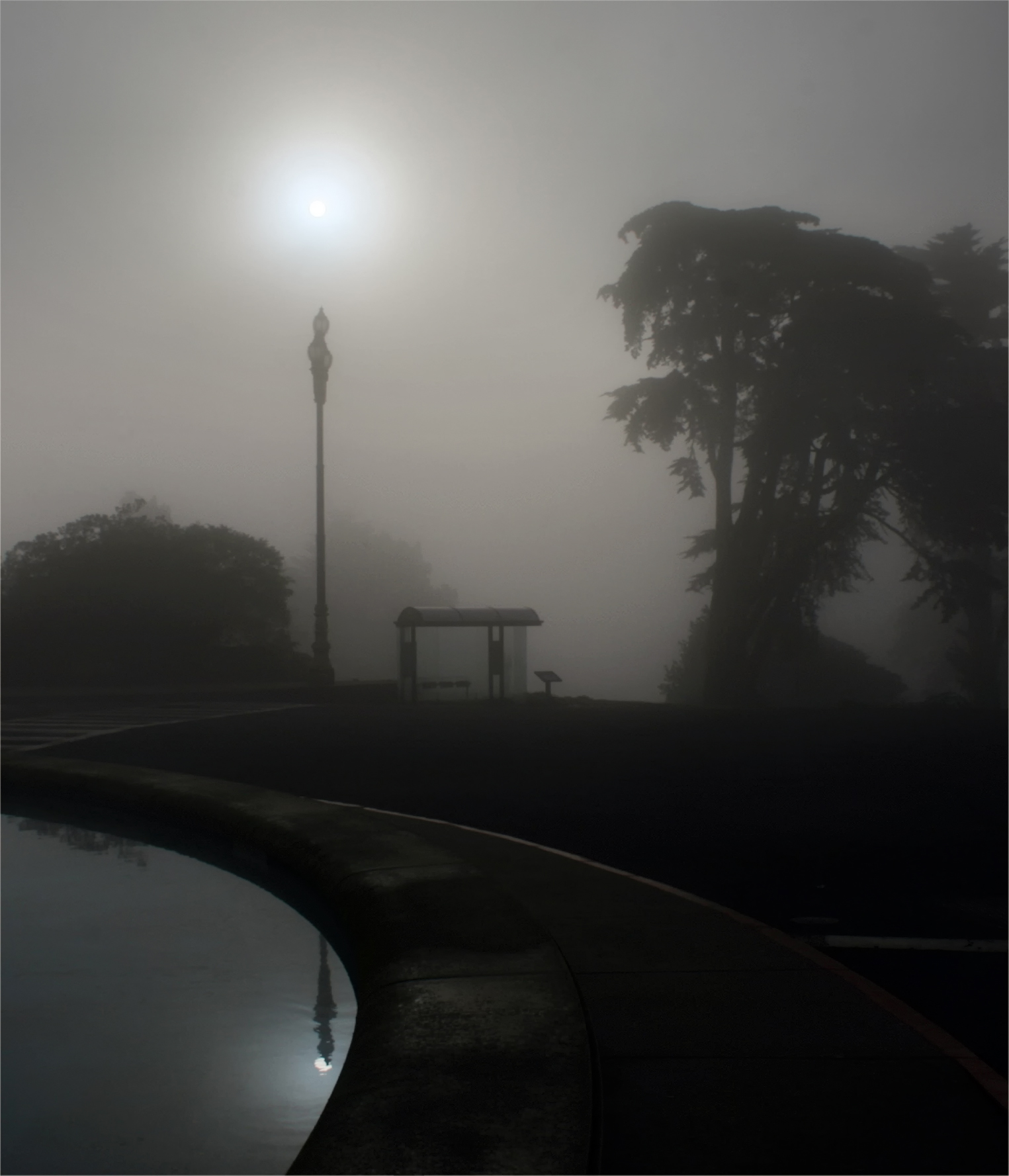 I've noticed that the reflection of the sun is seen at the reflection of the street light while the sun itself is much higher than the street light is. I've asked Andy Young to explain my image. Here's what he says: "the answer is Parallax. The reflection in the water shows the view as seen from a point that is the camera's reflection in the water -- i.e., as far below the surface as the camera is above it. The street light is much closer than the Sun; so parallax mainly affects the position of the light's reflected image. These perspective effects are *always* present in pictures of reflections in water -- but not often as obvious as in your picture, which is a "textbook example" of the effect."